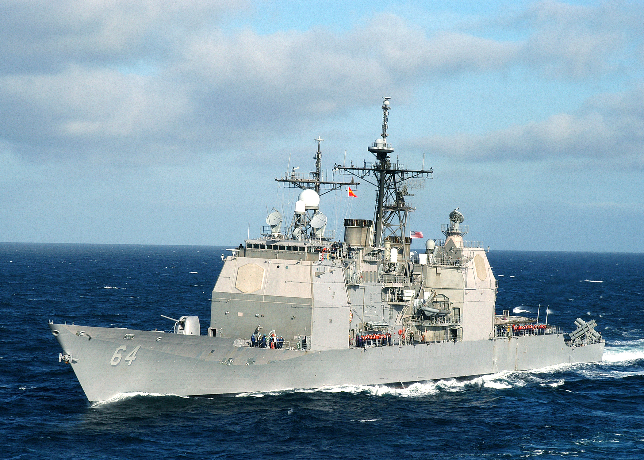 Atlantic Ocean (July 1, 2004) - The guided missile cruiser USS Gettysburg (CG 64) sails next to the nuclear-powered aircraft carrier USS Enterprise (CVN 65). Enterprise is one of seven aircraft carriers involved in Summer Pulse 2004. Summer Pulse 2004 is the simultaneous deployment of seven aircraft strike groups (CSGs), demonstrating the ability of the Navy to provide credible combat across the globe, in five theaters with other U.S., allied, and coalition military forces. Summer Pulse is the Navy's first deployment under its new Fleet Response Plan (FRP). U.S. Navy photo by Photographer's Mate Airman Alex J. Recalde (RELEASED) For more information go to